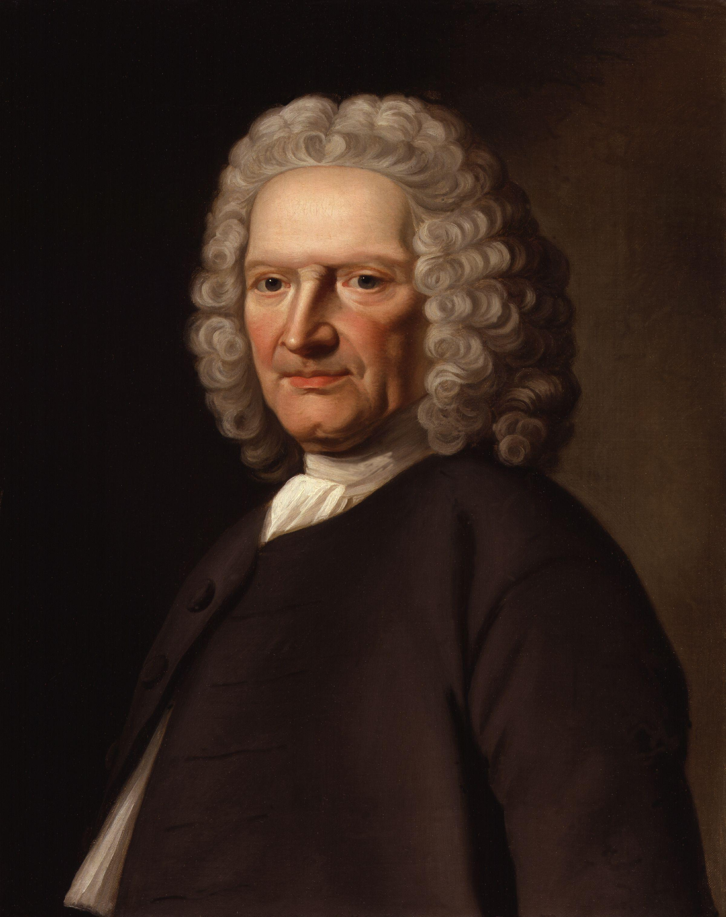 All images in this batch have been confirmed as author died before 1939 according to the official death date listed by the NPG.